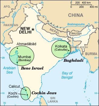 Map of Jewish communities in India before their emigration to Israel